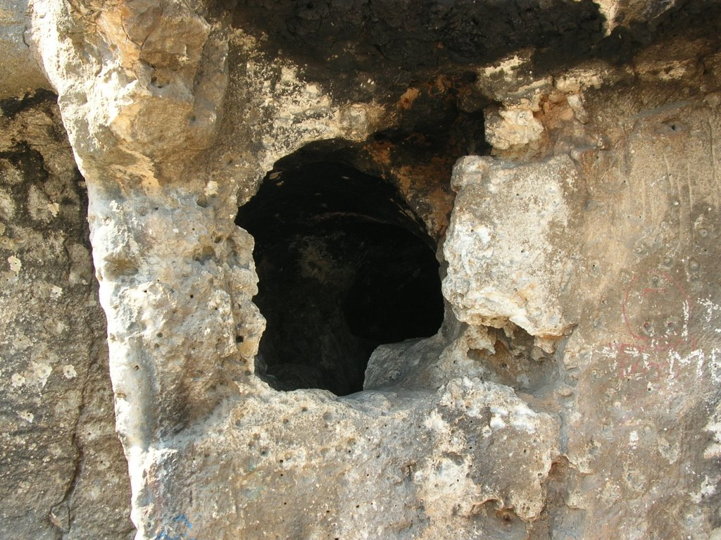 Monks Valley in Modiin